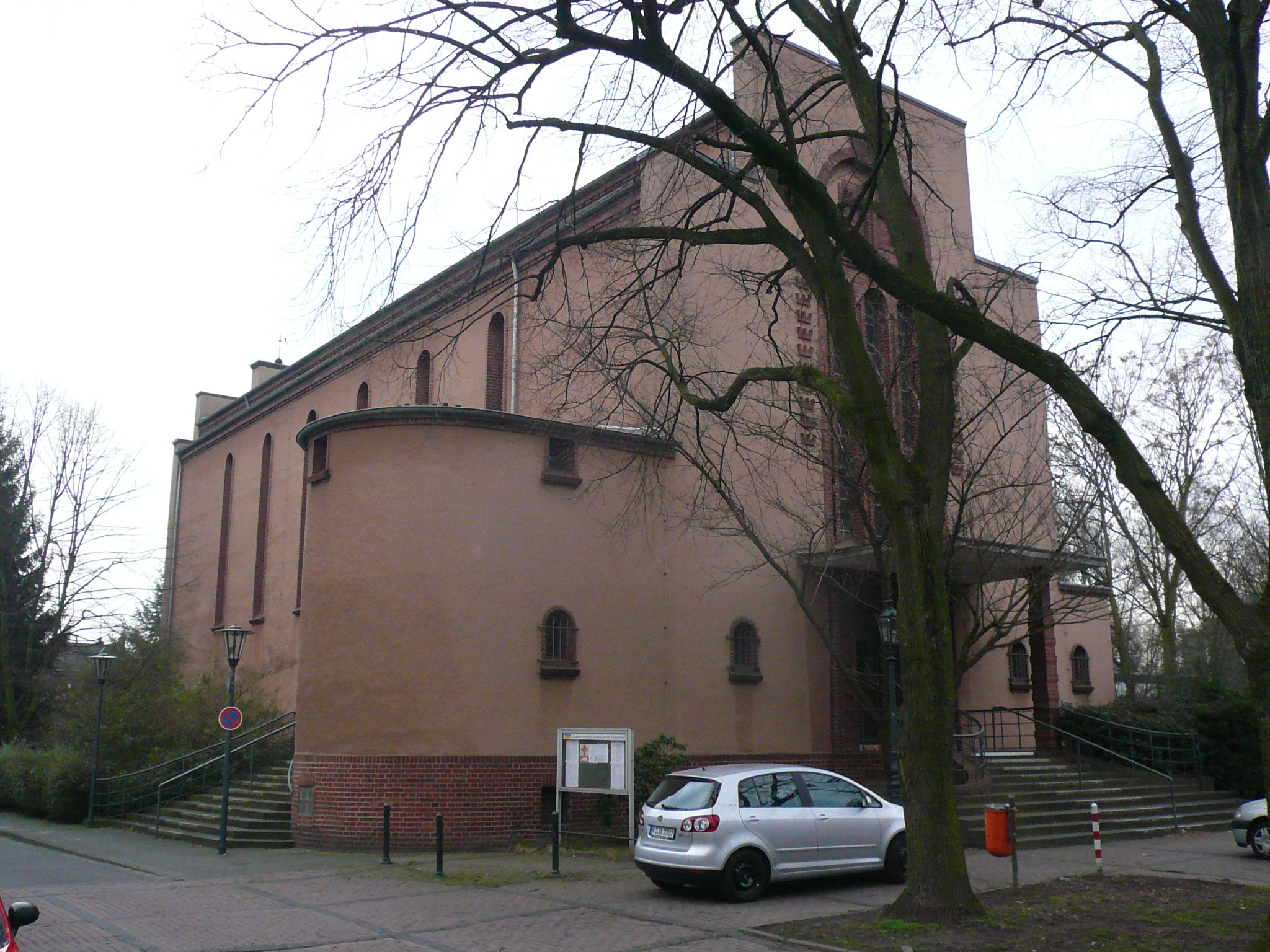 ucrainian catholic church, Düsseldorf, Germany